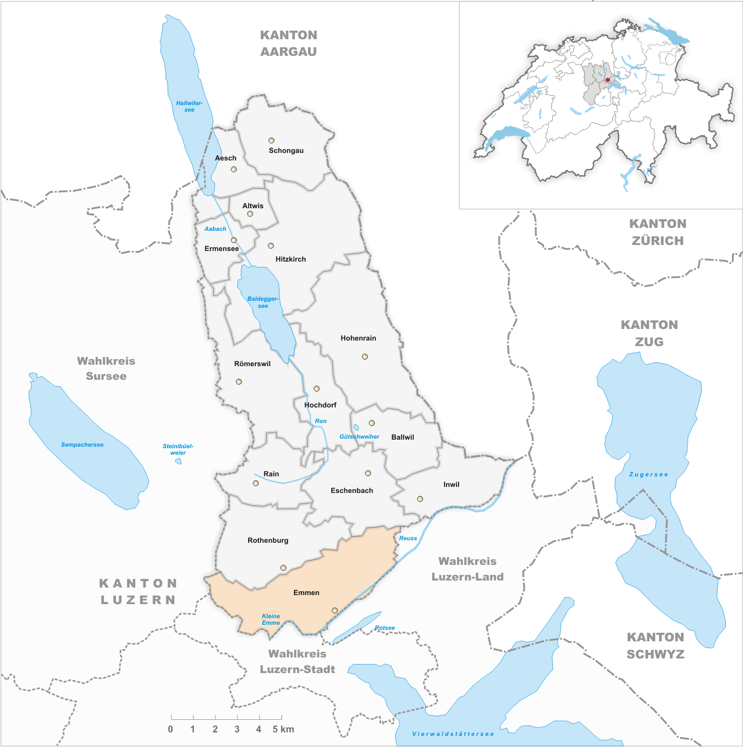 Municipality Emmen